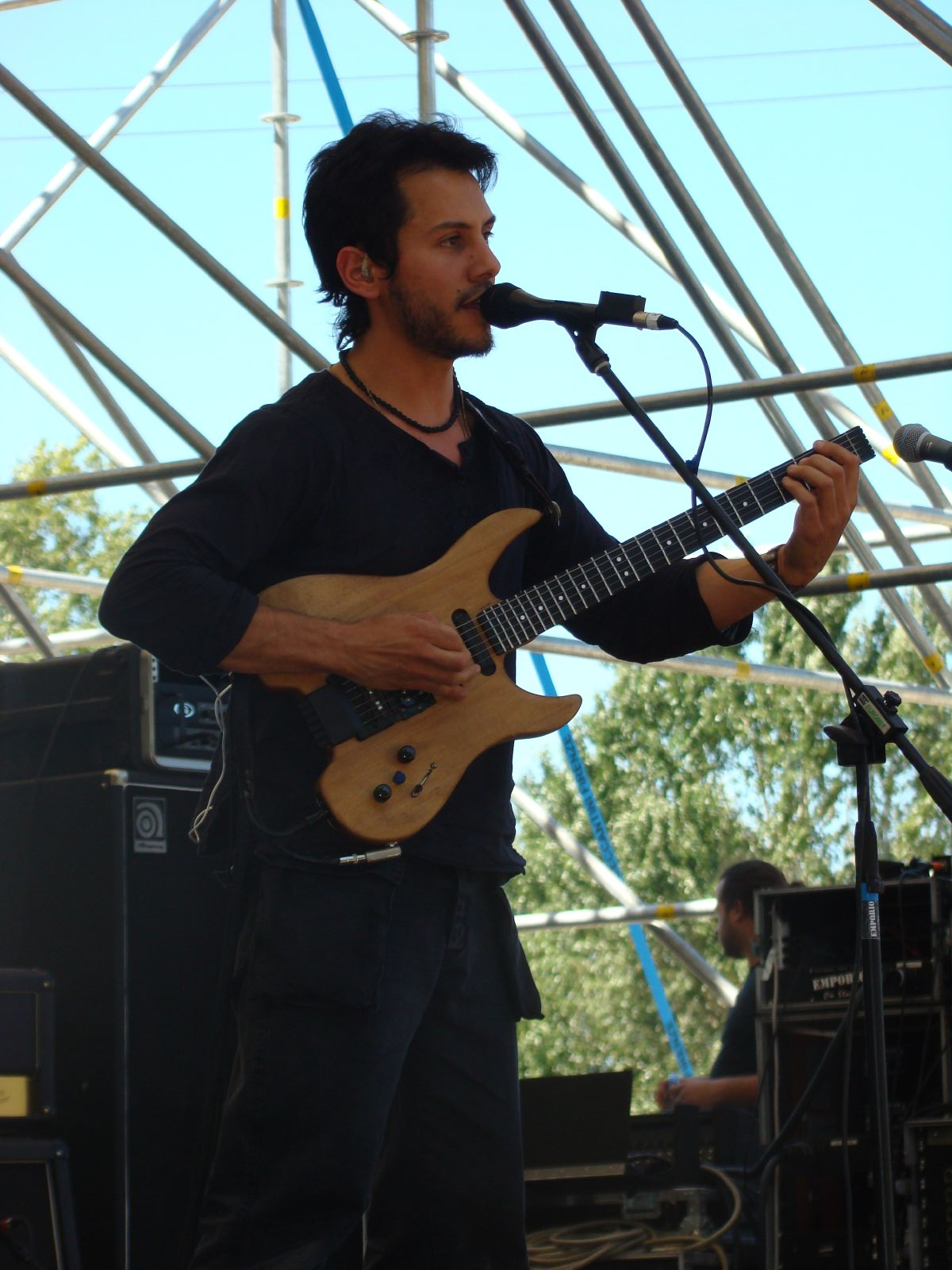 Paul Masvidal of Cynic, 2007